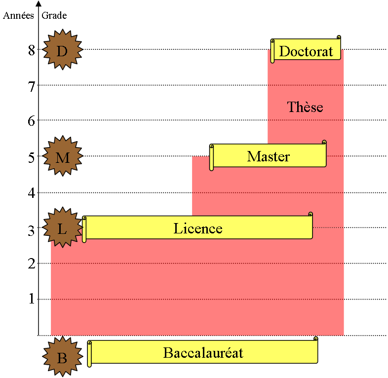 French educational system in universities since 2003.